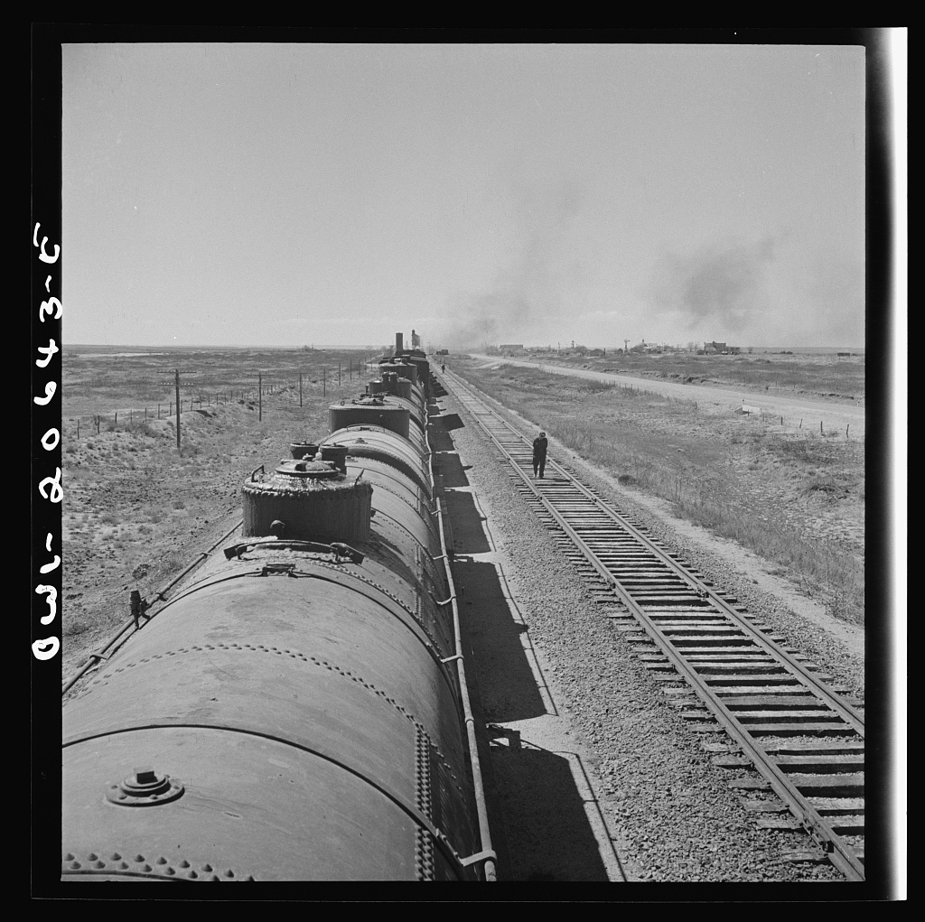 Tolar, New Mexico. Atchison, Topeka, and Santa Fe Railroad train between Clovis and Vaughn, New Mexico stopping for water. A brakeman walking the length of the train for inspection